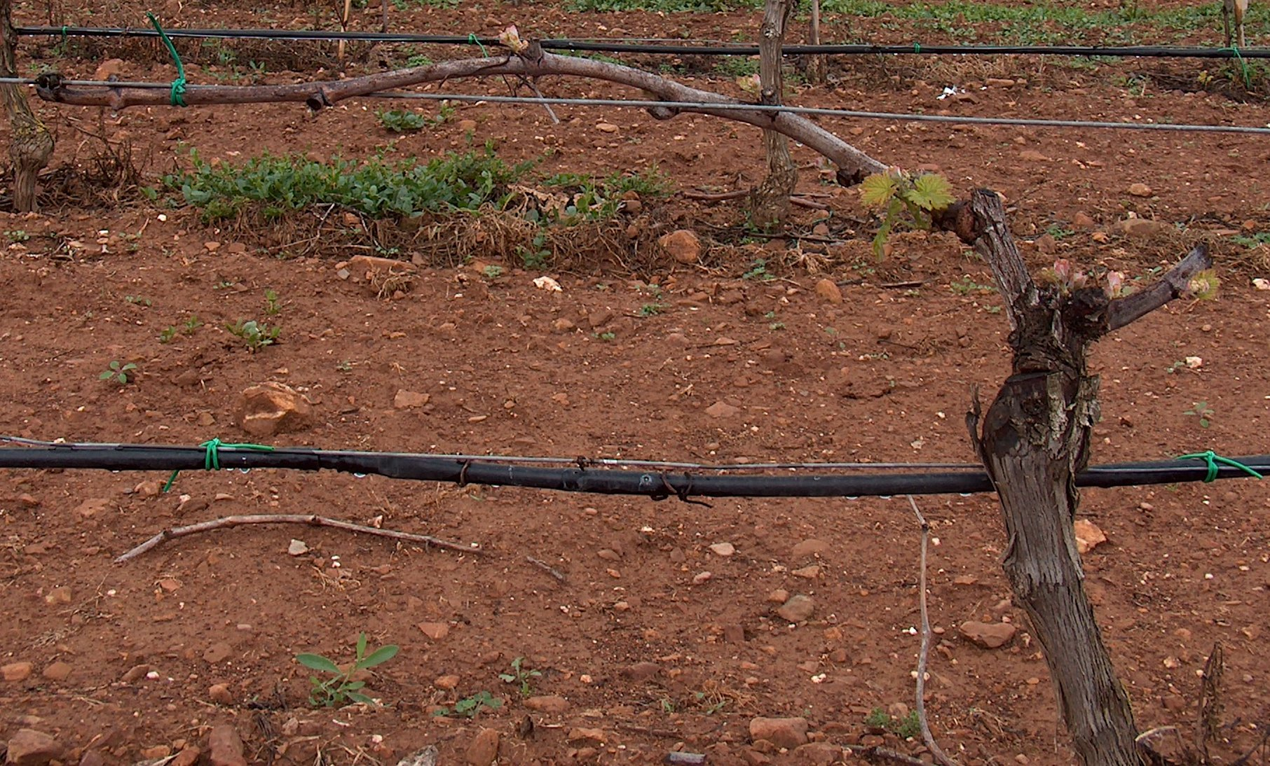 Grapevine grown with Simple Guyot system.